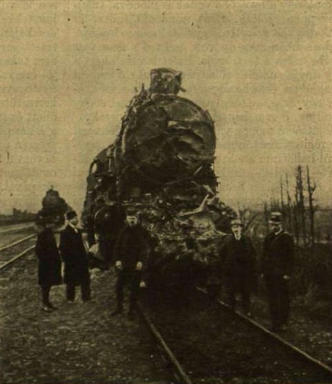 Broken locomotive at the Herceghalom railway accident's site